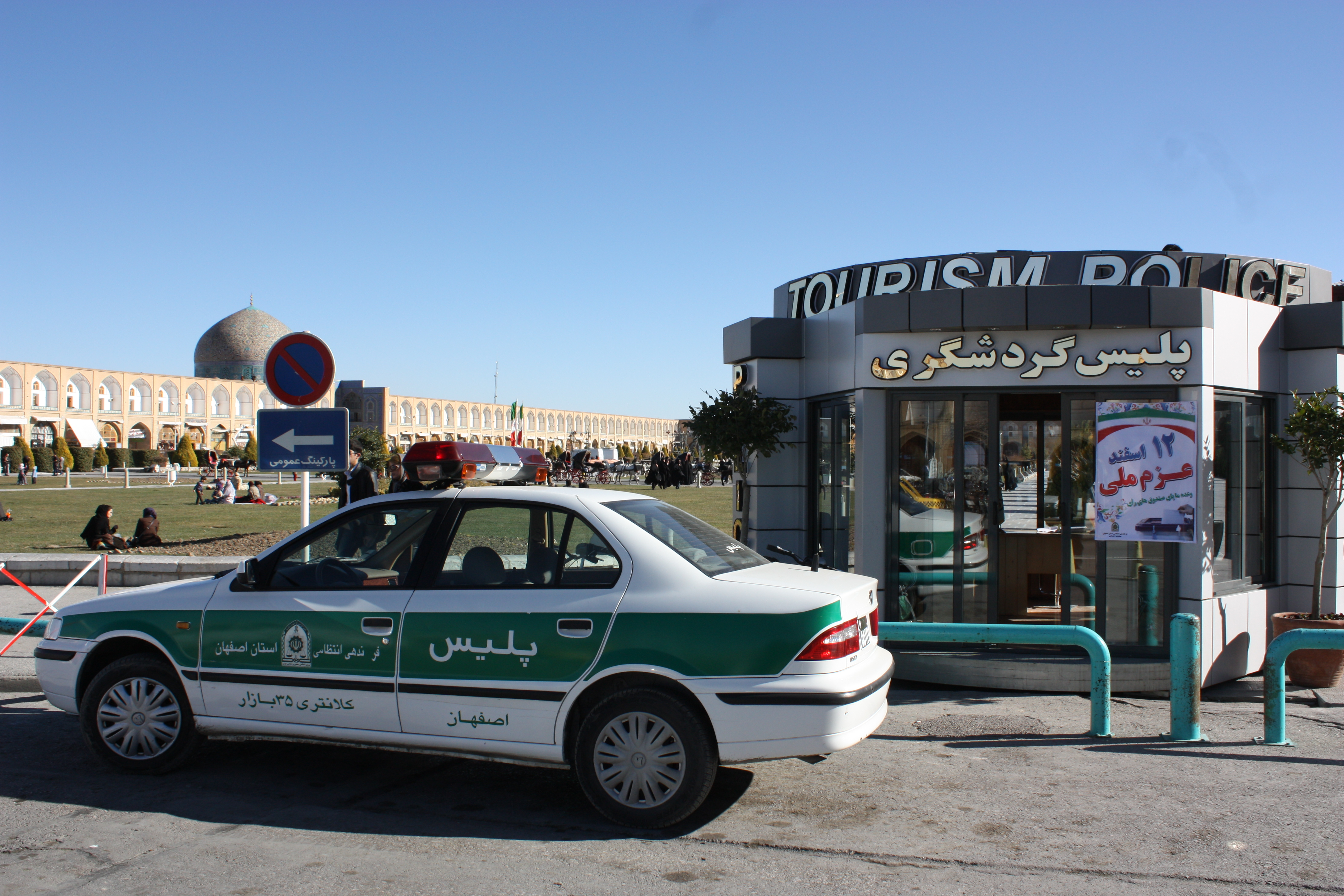 IKCO Samand - Tourism Police in Iran